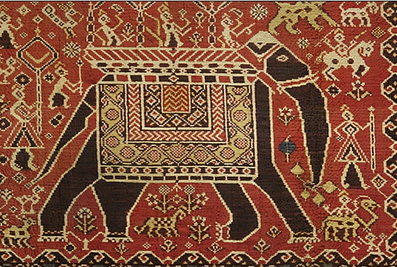 Patola, early 19th century (detail): Western India, Gujarat, Patan Textile; Ceremonial/Ritual Furnishing, Resist-dyed silk warp and weft (double ikat) plain weave, metallic-wrapped supplementary weft., 43 x 197 1/2 in. (109.22 x 501.65 cm) including fringe Gift of Mrs. Harry Lenart (M.87.242), Los Angeles County Museum of Art